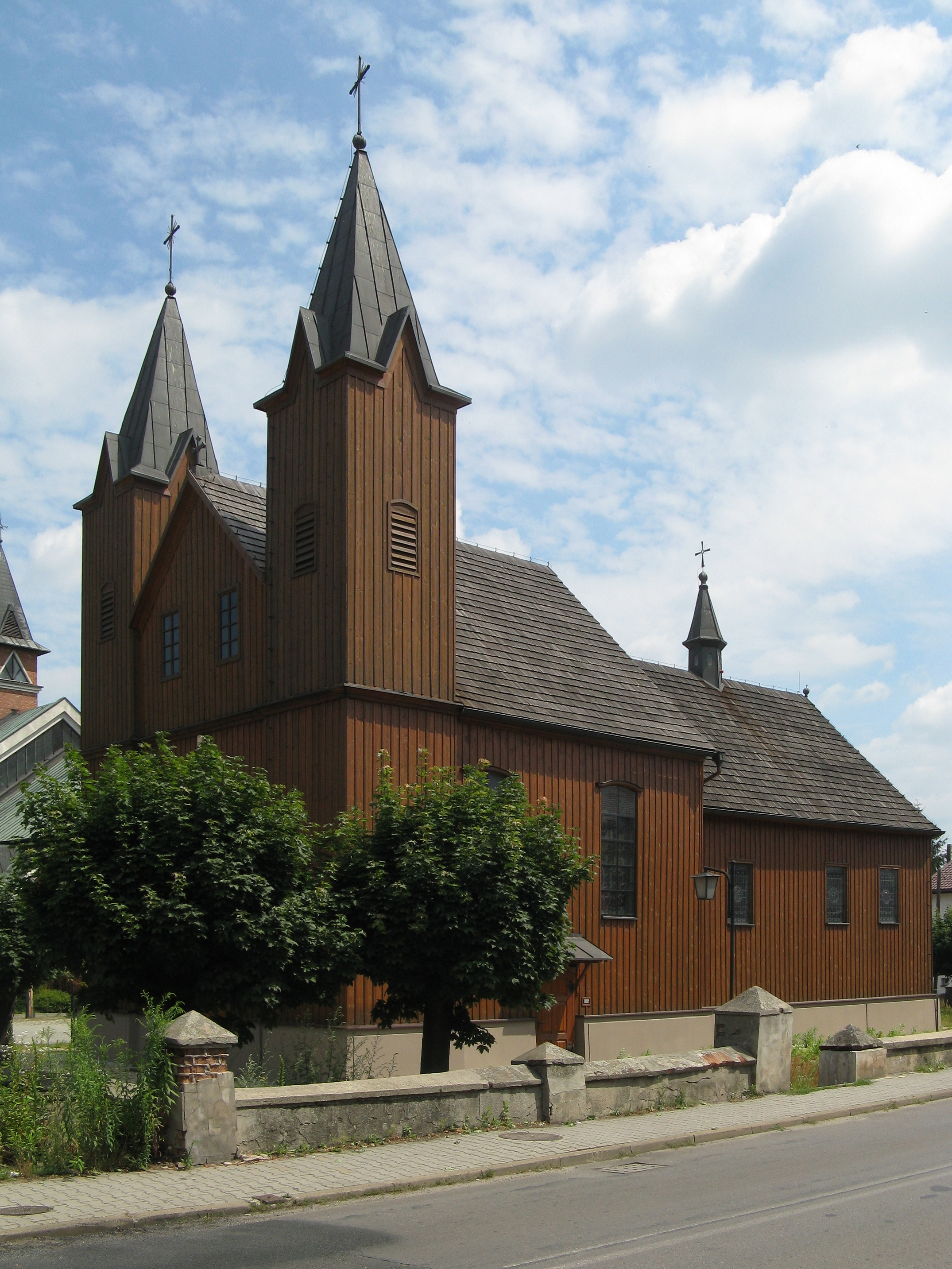 Old st. Lawrence church in Bobrowniki, Poland.